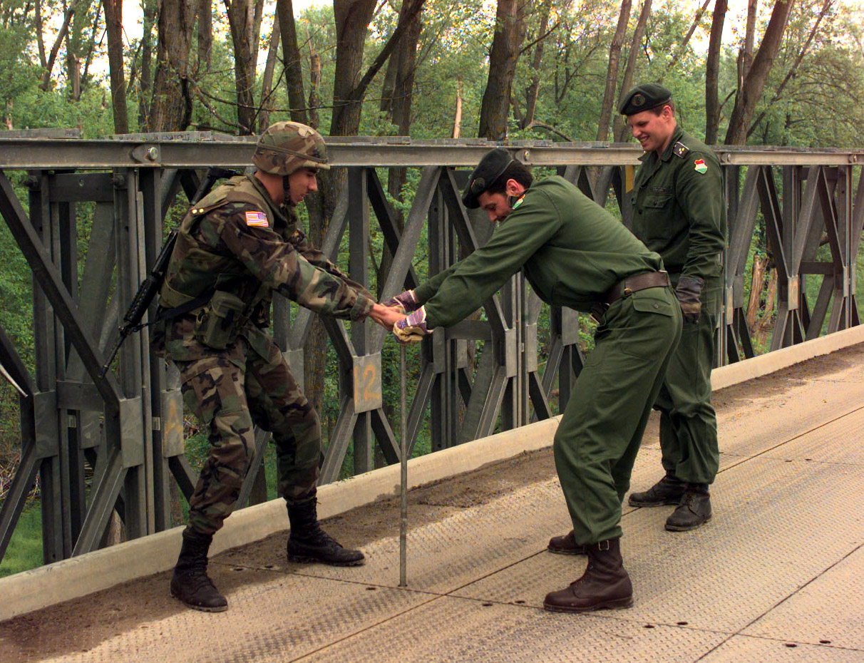 Pfc. Hector Gomez (left), U.S. Army, assists Hungarian Army Engineers in tightening a platform on the Brcko Bridge in Bosnia and Herzegovina, on April 26, 1999. Gomez is deployed to Bosnia and Herzegovina in support of Operation Joint Forge from Alpha Company, 91st Engineer Battalion, Fort Hood, Texas.